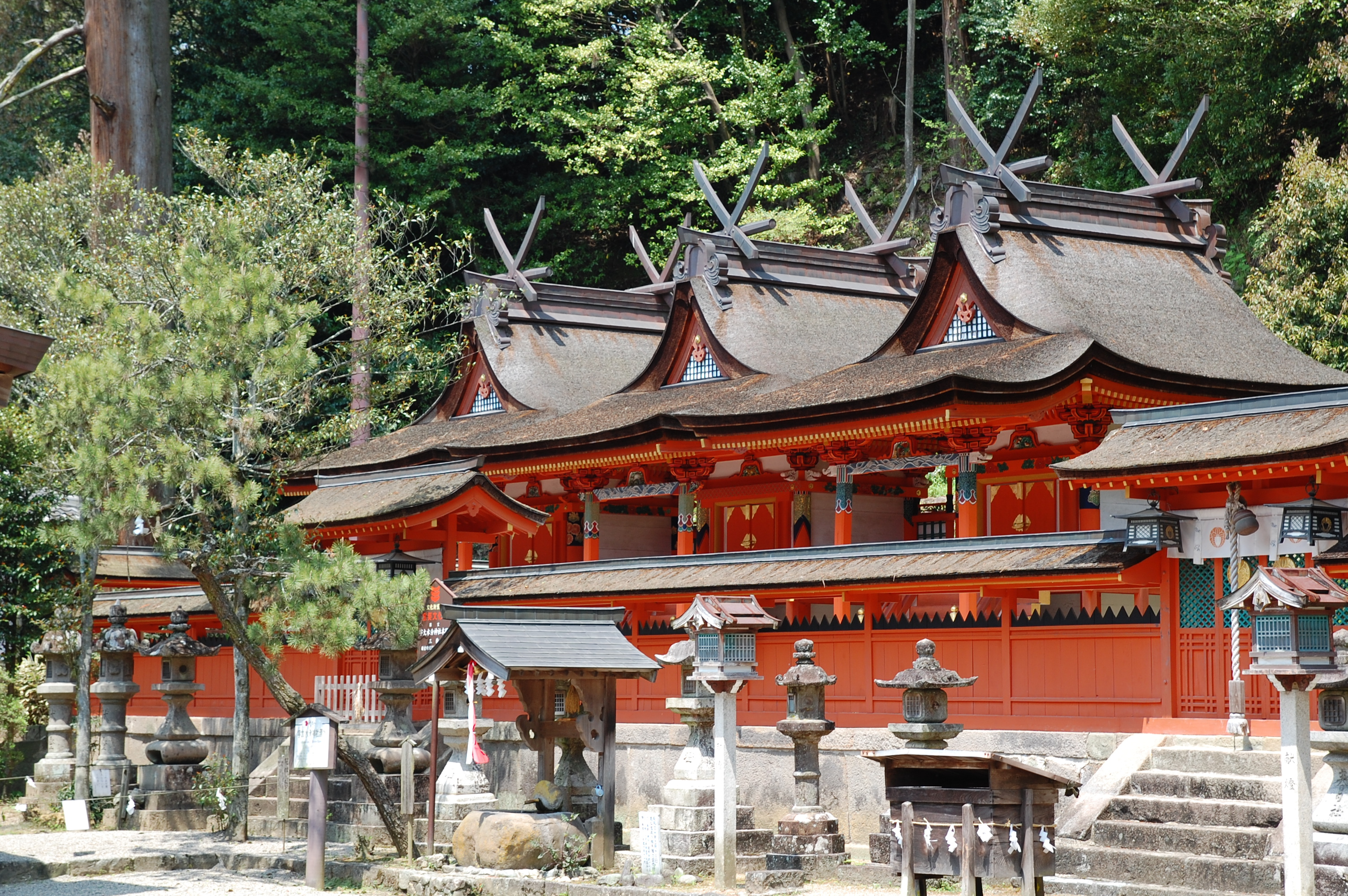 Japanese[edit] ファイルの概要[edit] Description